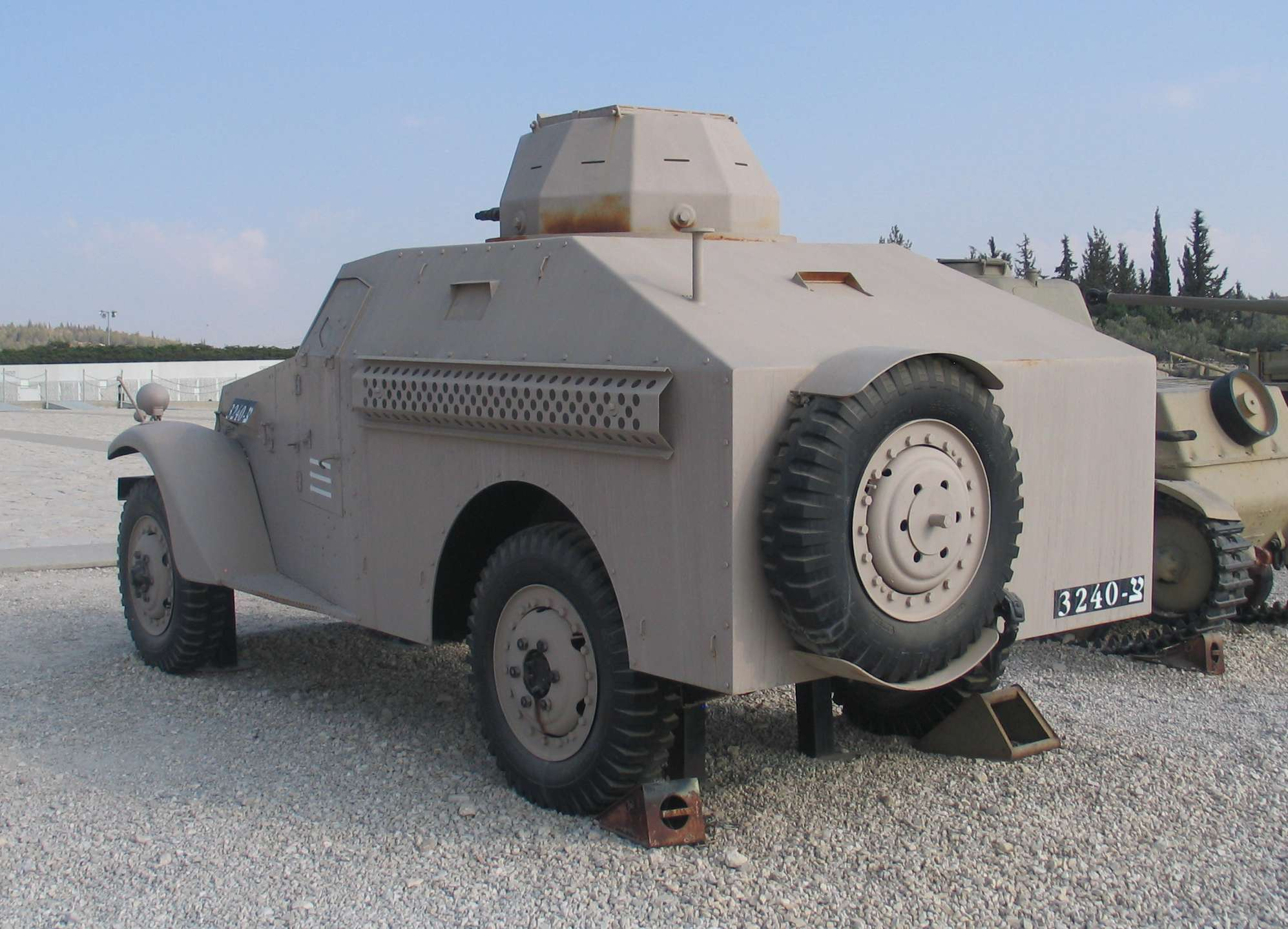 Modified M3 Scout Car, in Yad la-Shiryon museum, Latrun, Israel.